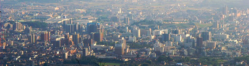 Saijyo-cho in Higashihiroshima, Hiroshima pref., Japan.